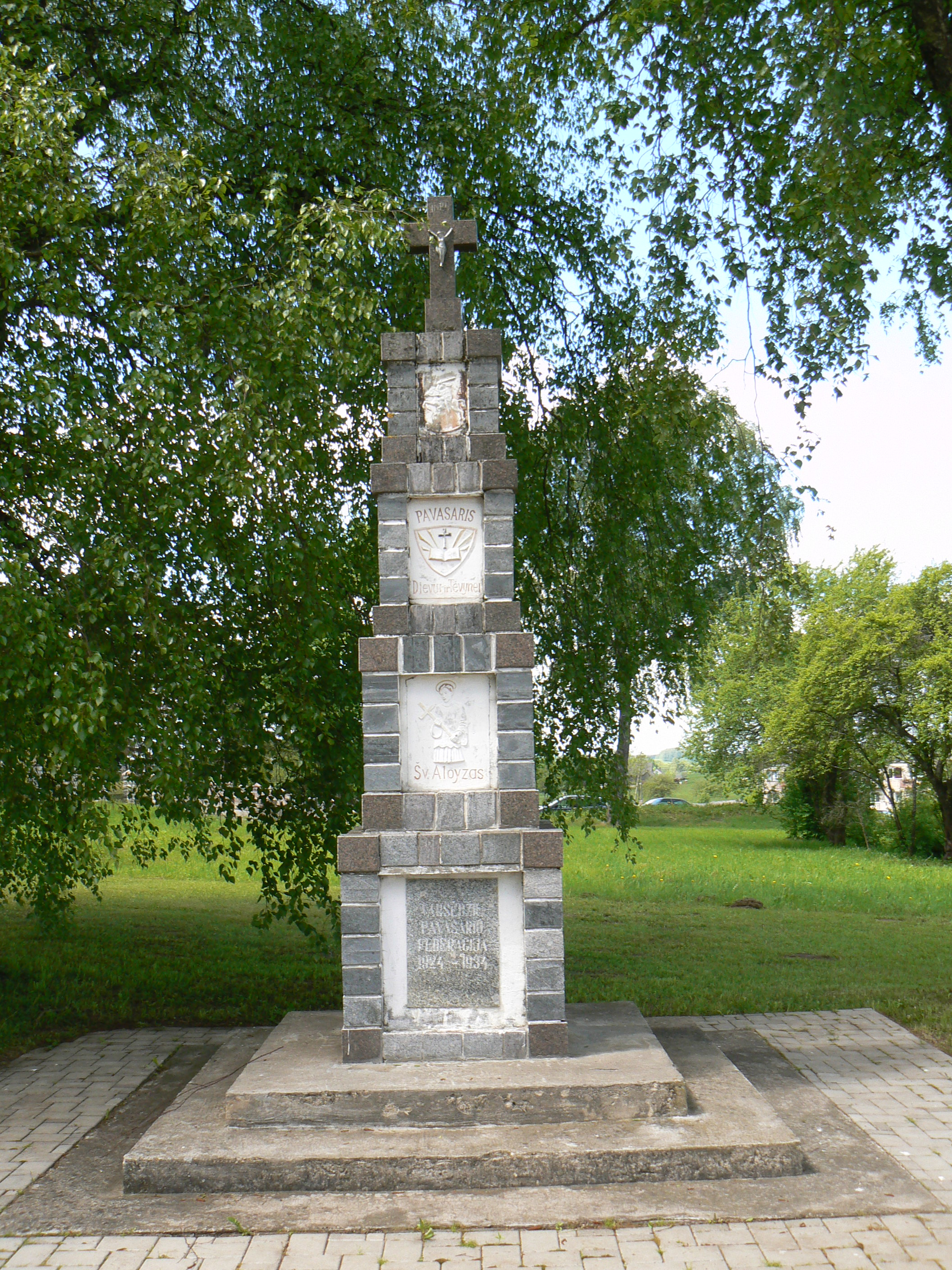 Pavasario federation monument in Varsėdžiai